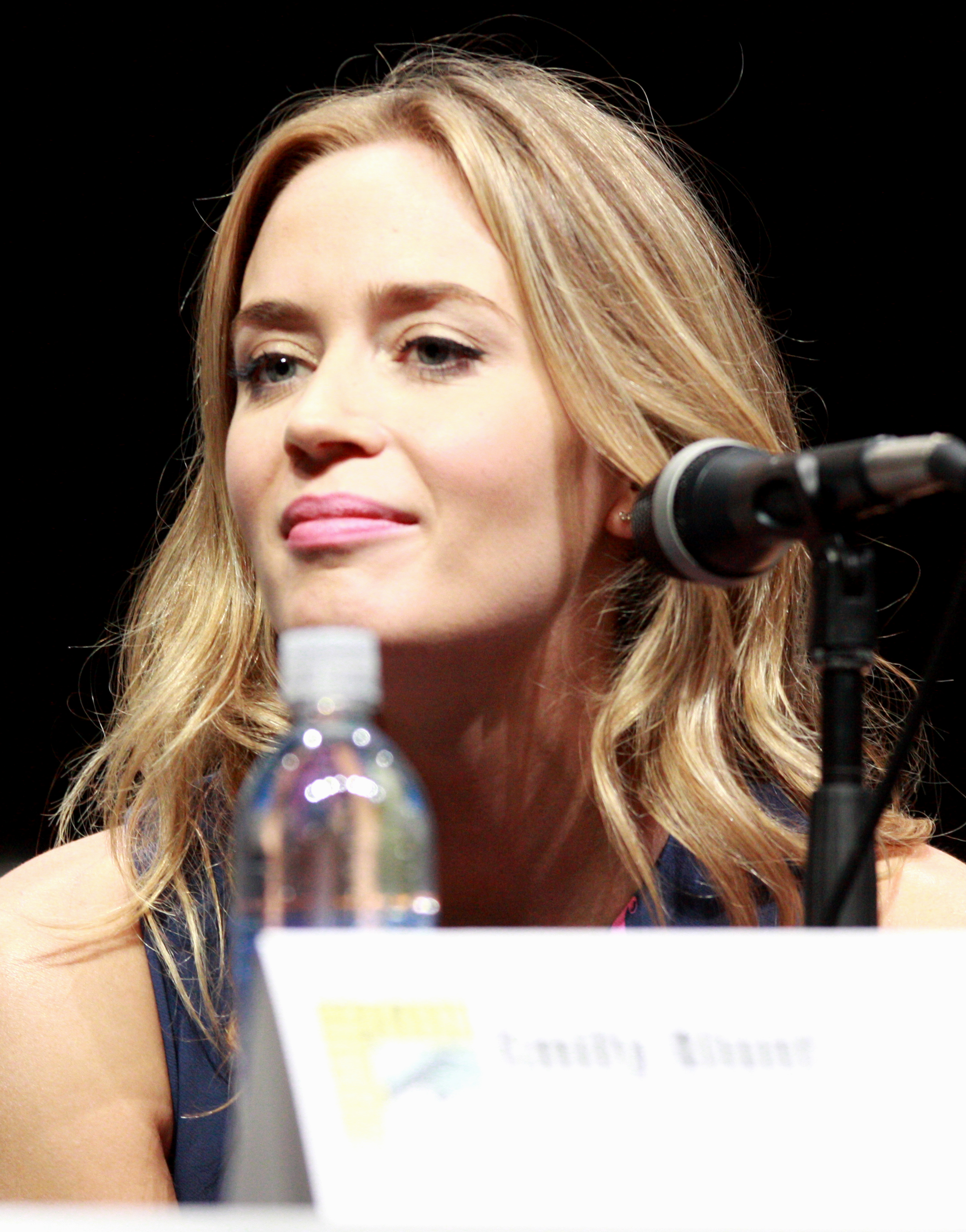 Emily Blunt at the 2013 San Diego Comic Con International in San Diego, California.